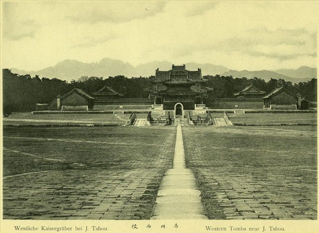 old photo from China 1900-1903, see the file's name for detail.